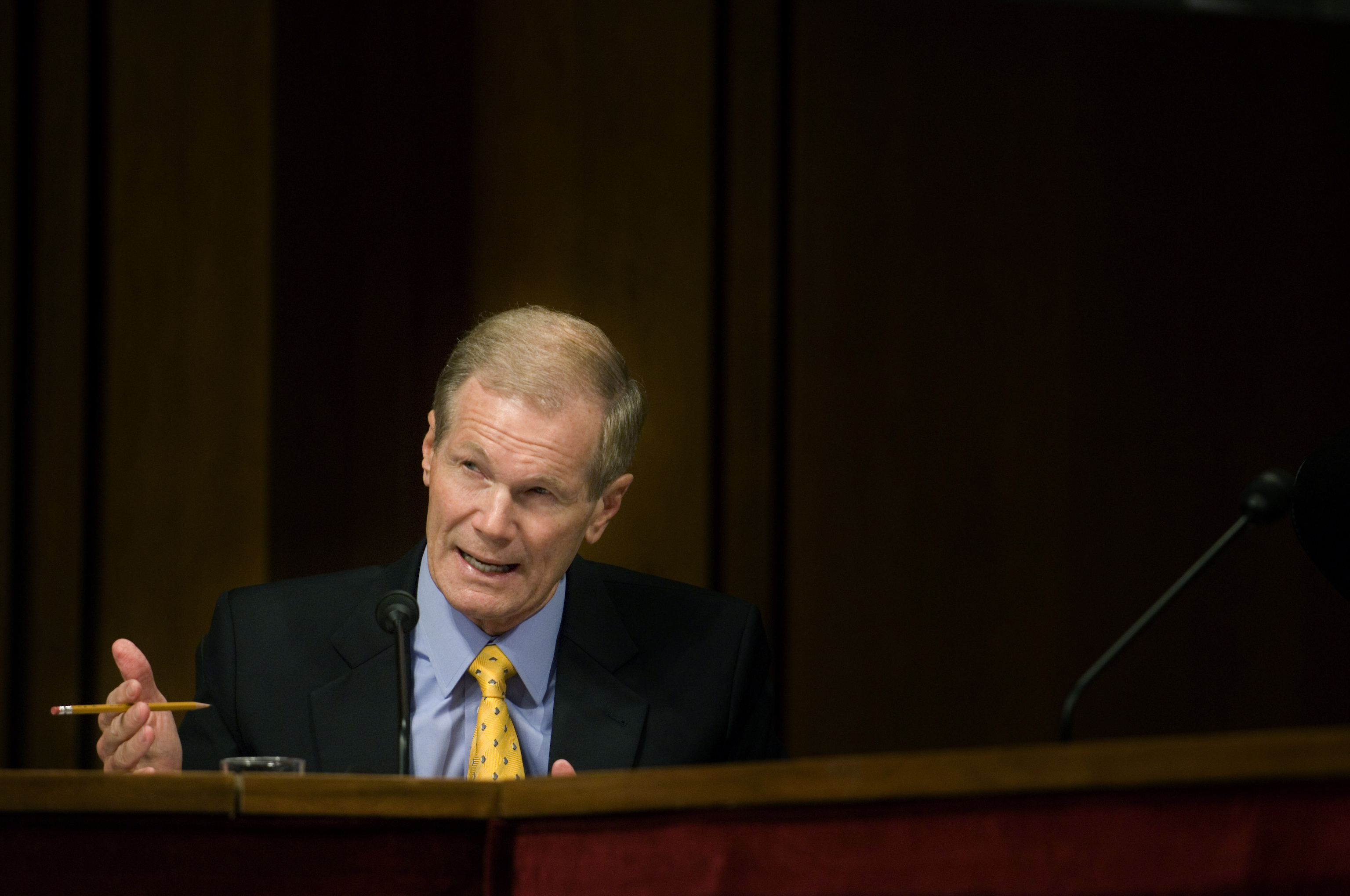 WASHINGTON (Sept. 27, 2007) – Sen. Bill Nelson, D-Fla., questions Adm. Gary Roughead, commander of U.S. Fleet Forces Command, after his testimony before the Committee on Armed Services during his confirmation hearing for appointment to Chief of Naval Operations. U.S. Navy photo by Chief Mass Communication Specialist Shawn P. Eklund (RELEASED)